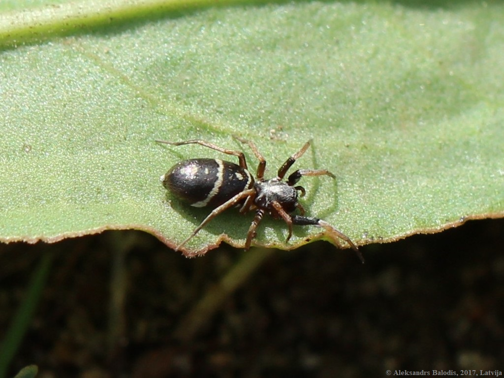 Micaria pulicaria